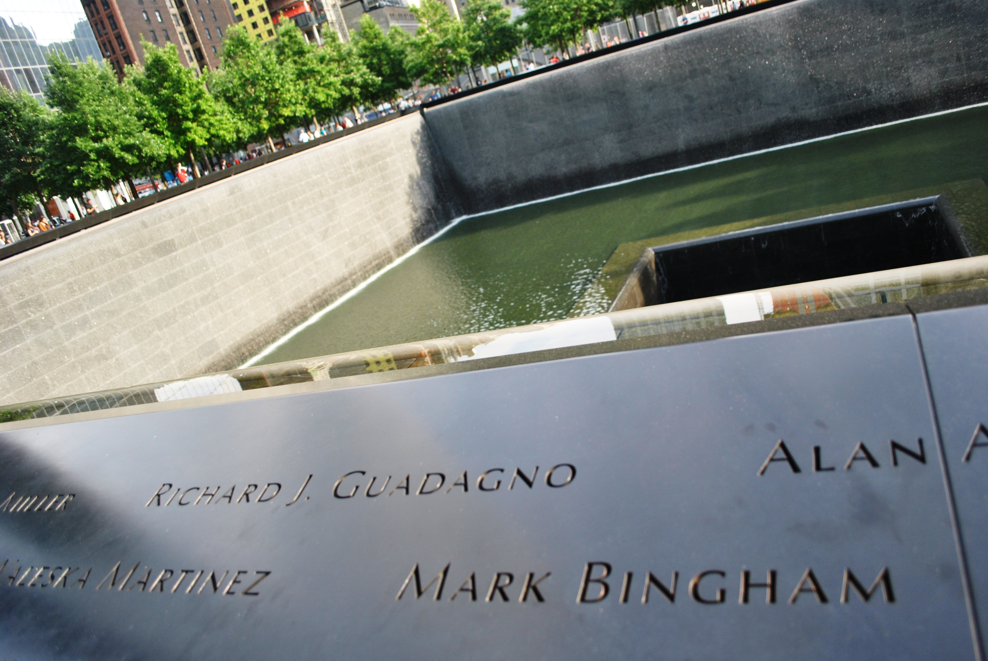 Image originally published in Queer Places: Retracing the Steps of LGBTQ people around the World Authored by Elisa Rolle